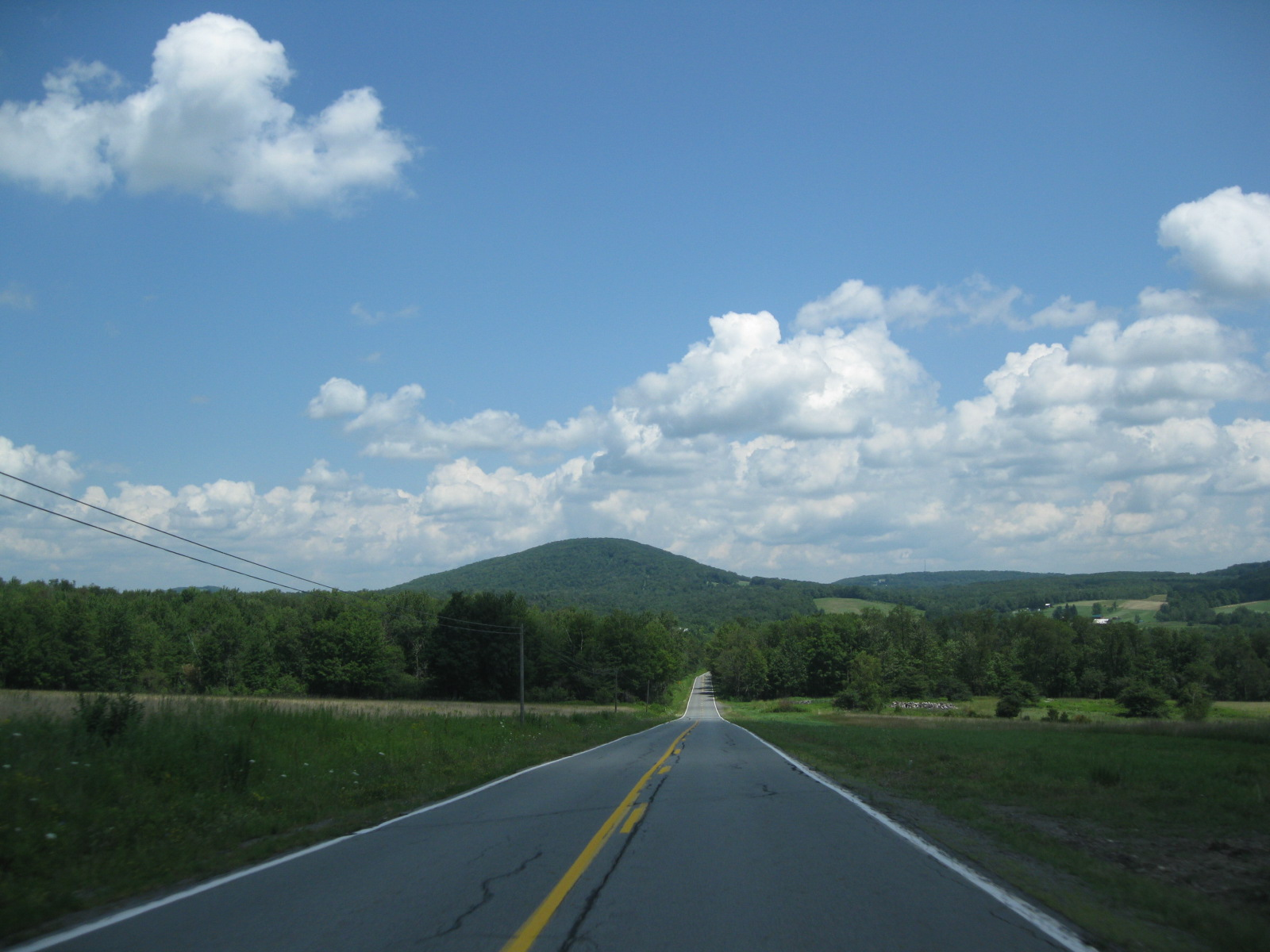 Image of Sugarloaf Mountain in Orson, Preston Township, Wayne County, Pennsylvania, taken near East Ararat, Ararat Township, Susquehanna County, Pennsylvania, on PA Route 370, looking northeast.